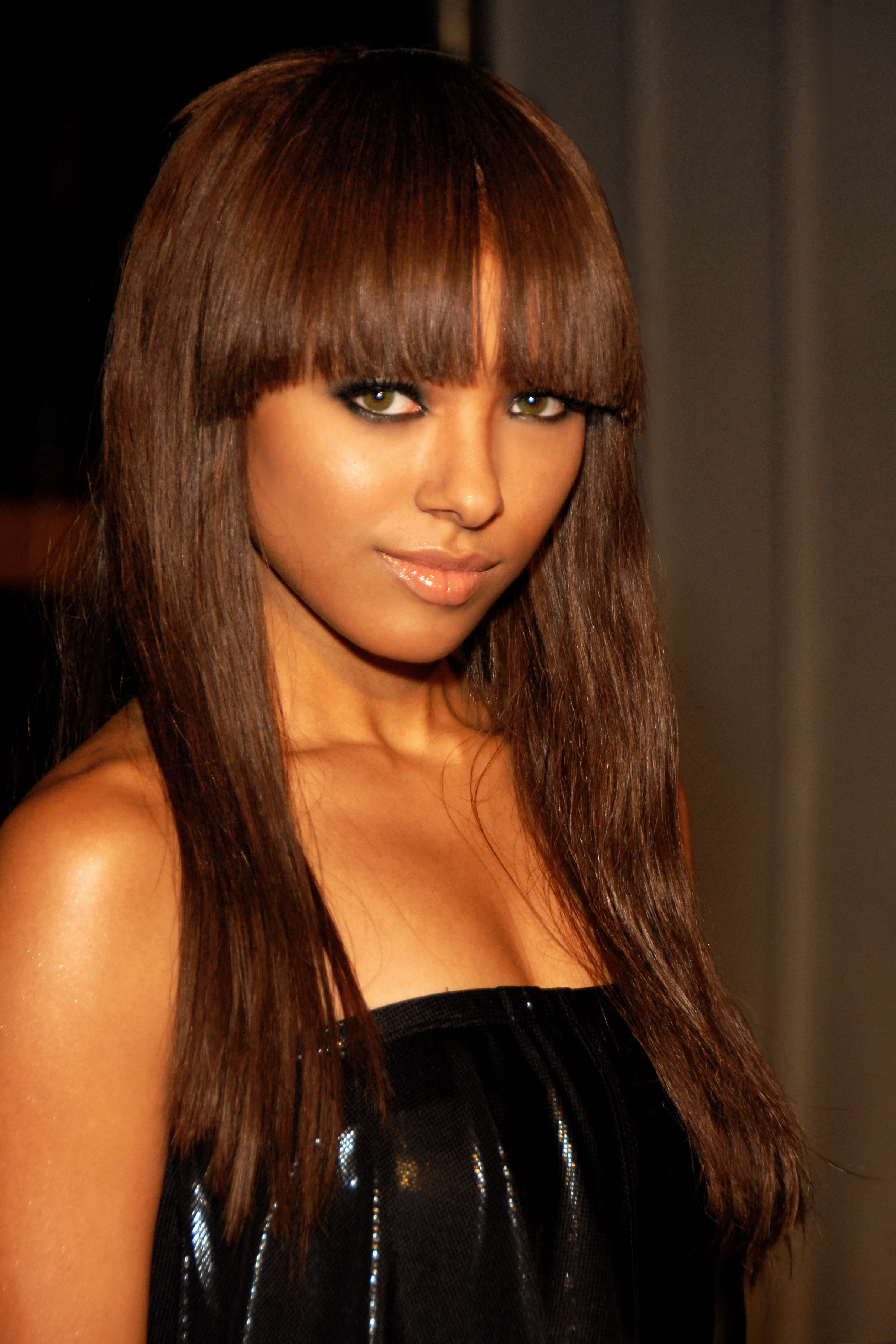 Katerina Graham attending Maxim Magazine's 10th Annual Hot 100 Celebration, Santa Monica, CA on May 13, 2009 - Photo by Glenn Francis of